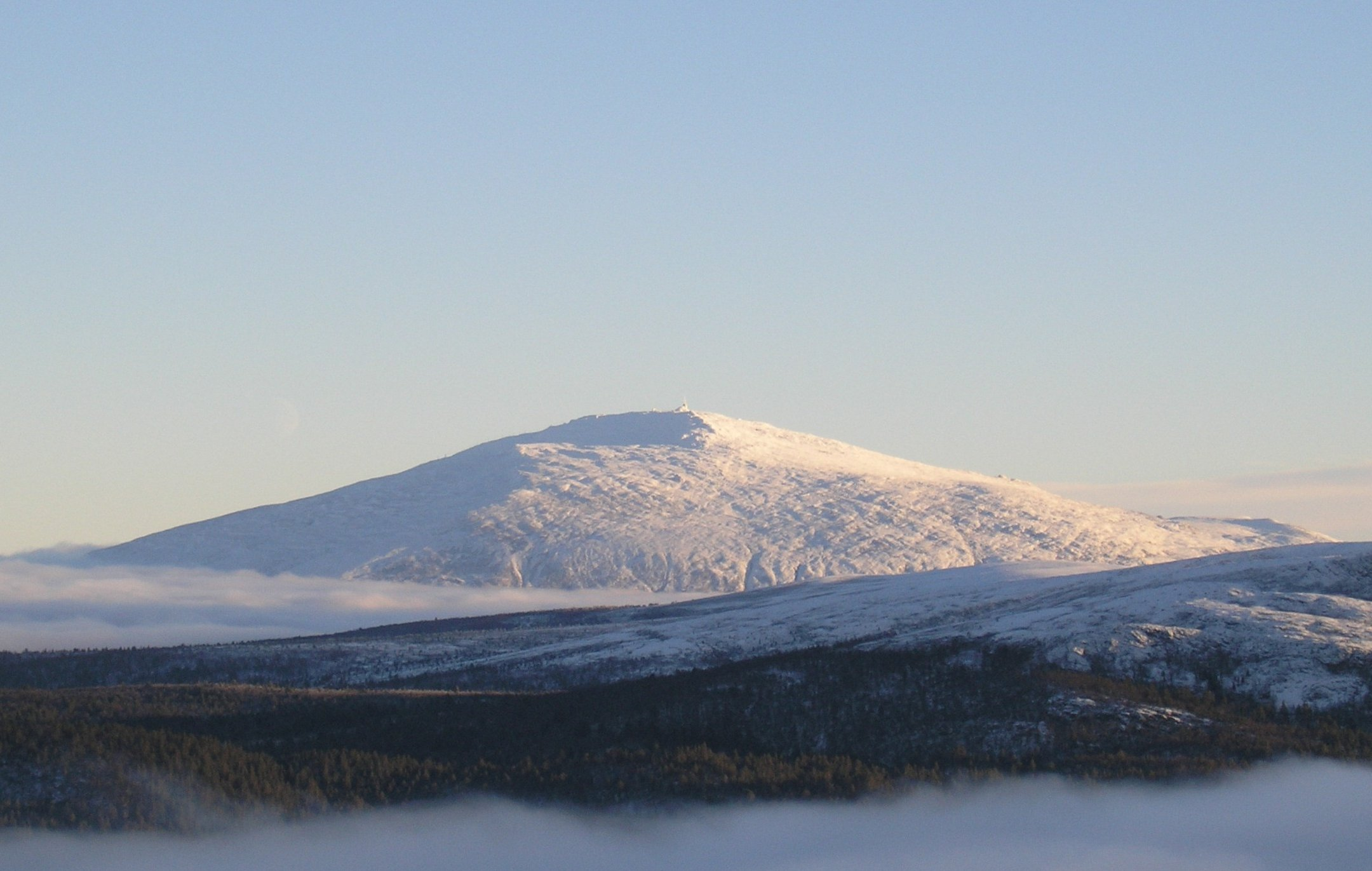 Tron mountain in Alvdal. The fog is covering Østerdalen valley in front of the mountaing. Seen from Strålsjøåsen.